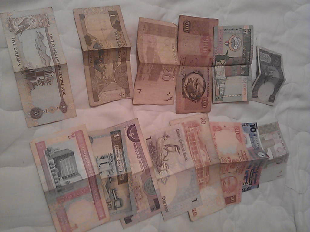 a several Currencies.